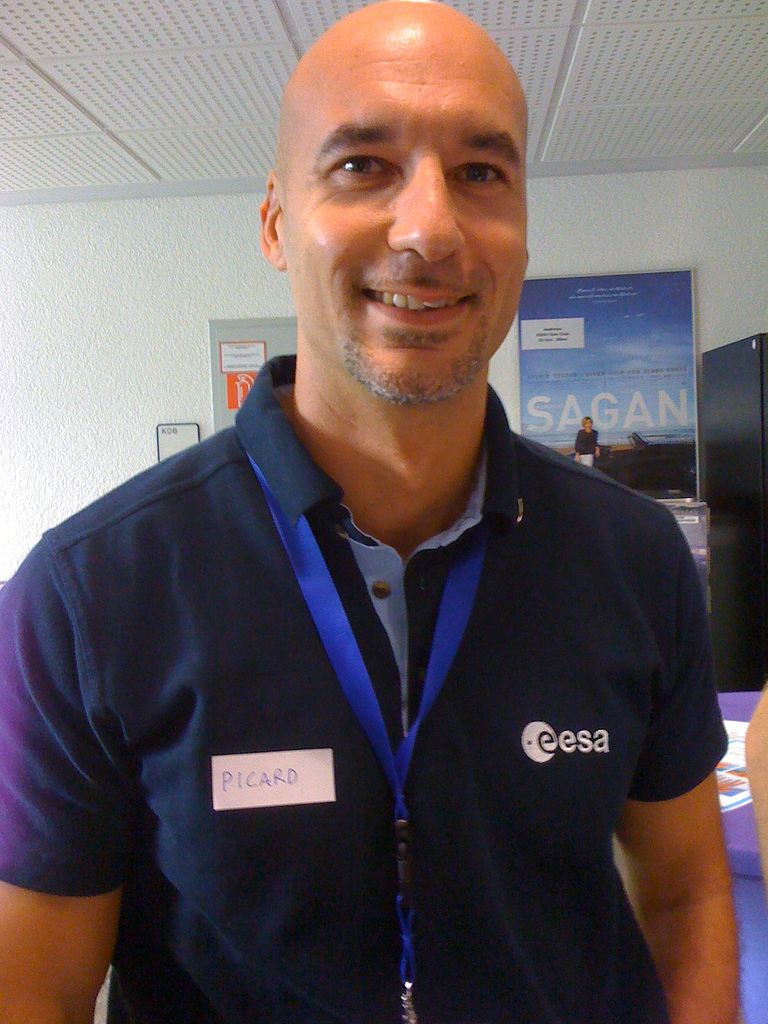 ESA Astronaute Candidate Luca Parmitano 2009